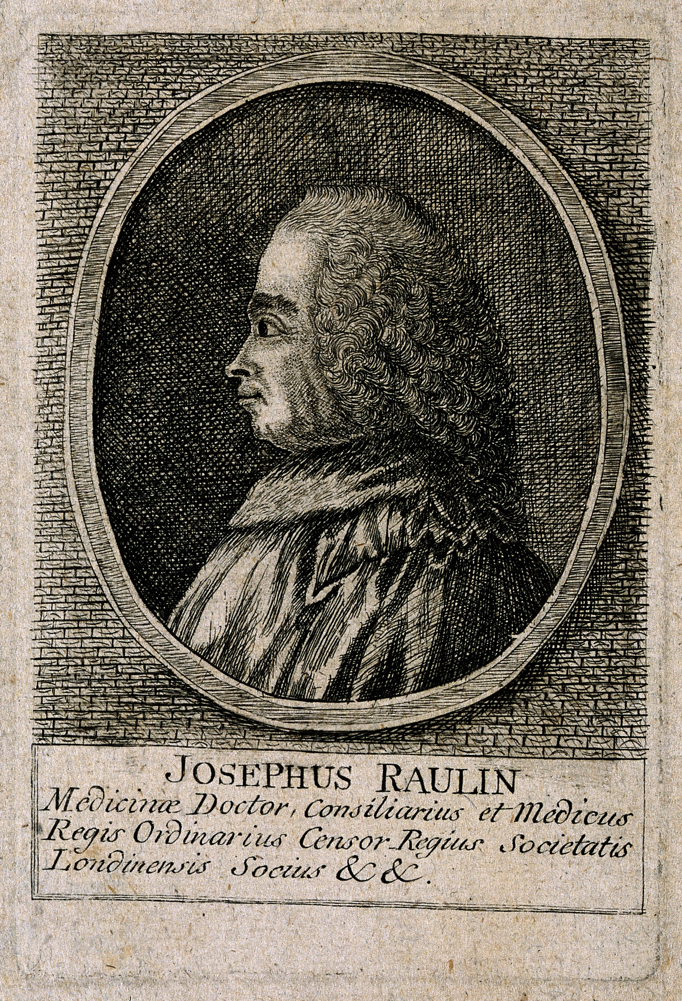 Joseph Raulin. Line engraving. Iconographic Collections Keywords: portrait prints; engravings; Joseph Raulin